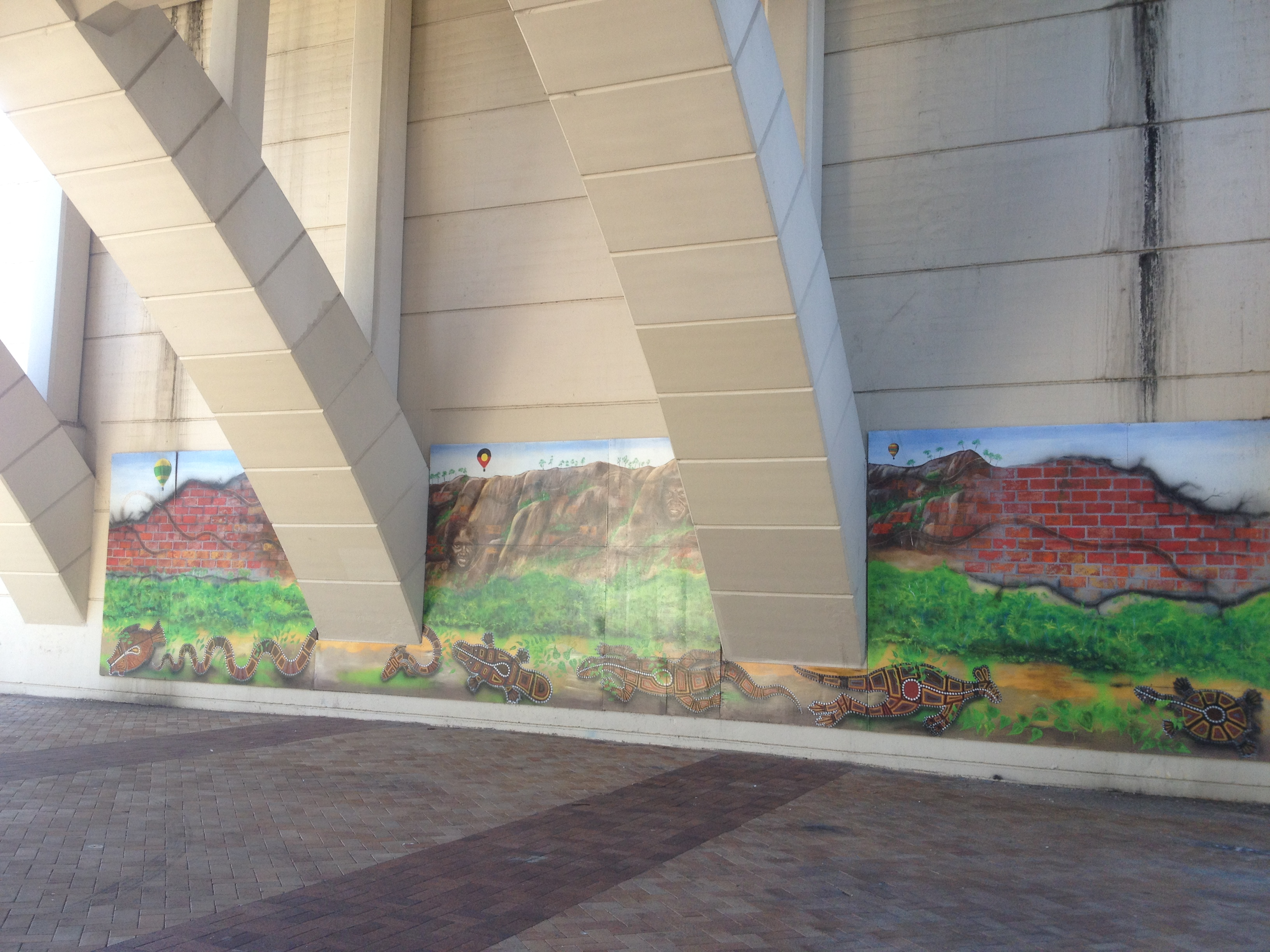 William Jolly Bridge Street art at South Brisbane, Queensland